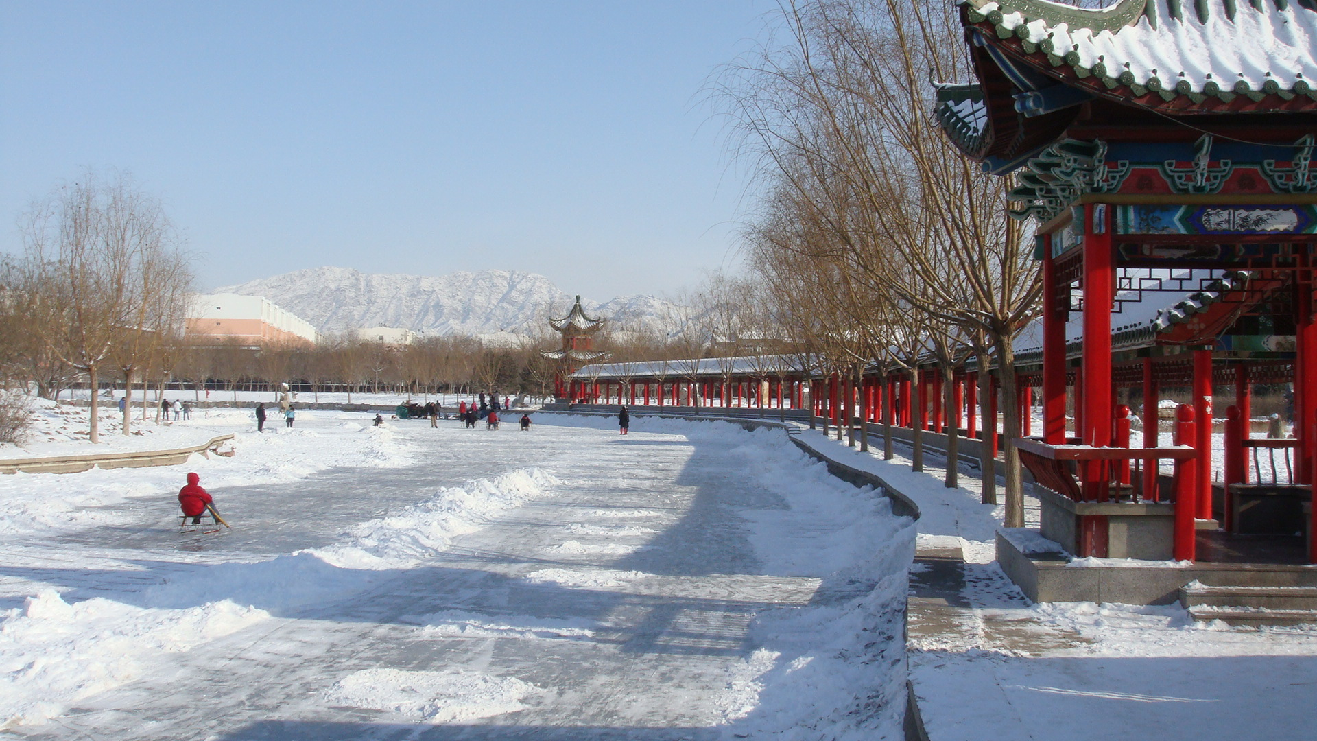 Snow in Wuhai People's Park